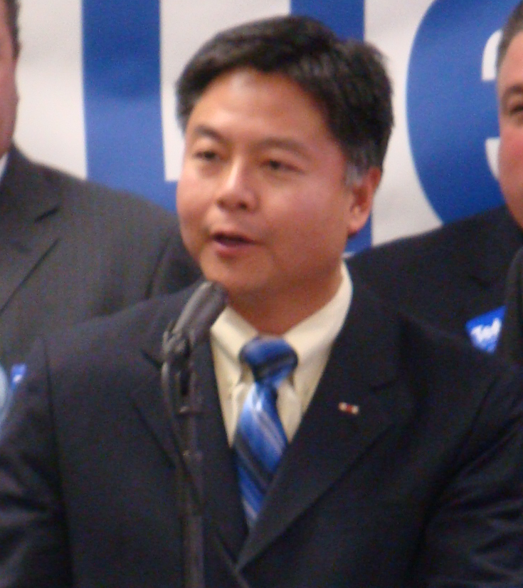 California State Senator Ted Lieu. (Paresh Dave / Neon Tommy)